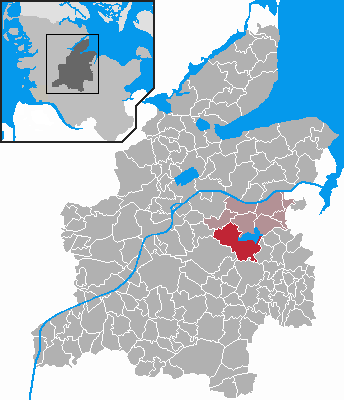 Locator maps of municipalities in Schleswig-Holstein - District Rendsburg-Eckernförde